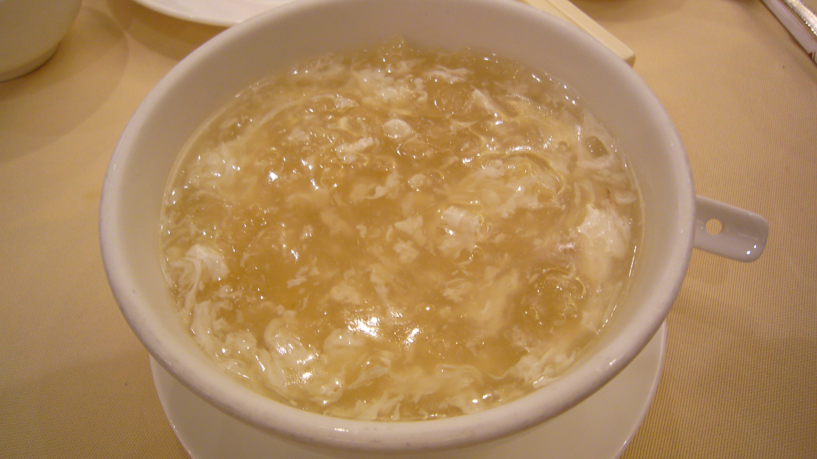 Fish Maw Soup in Hong kong